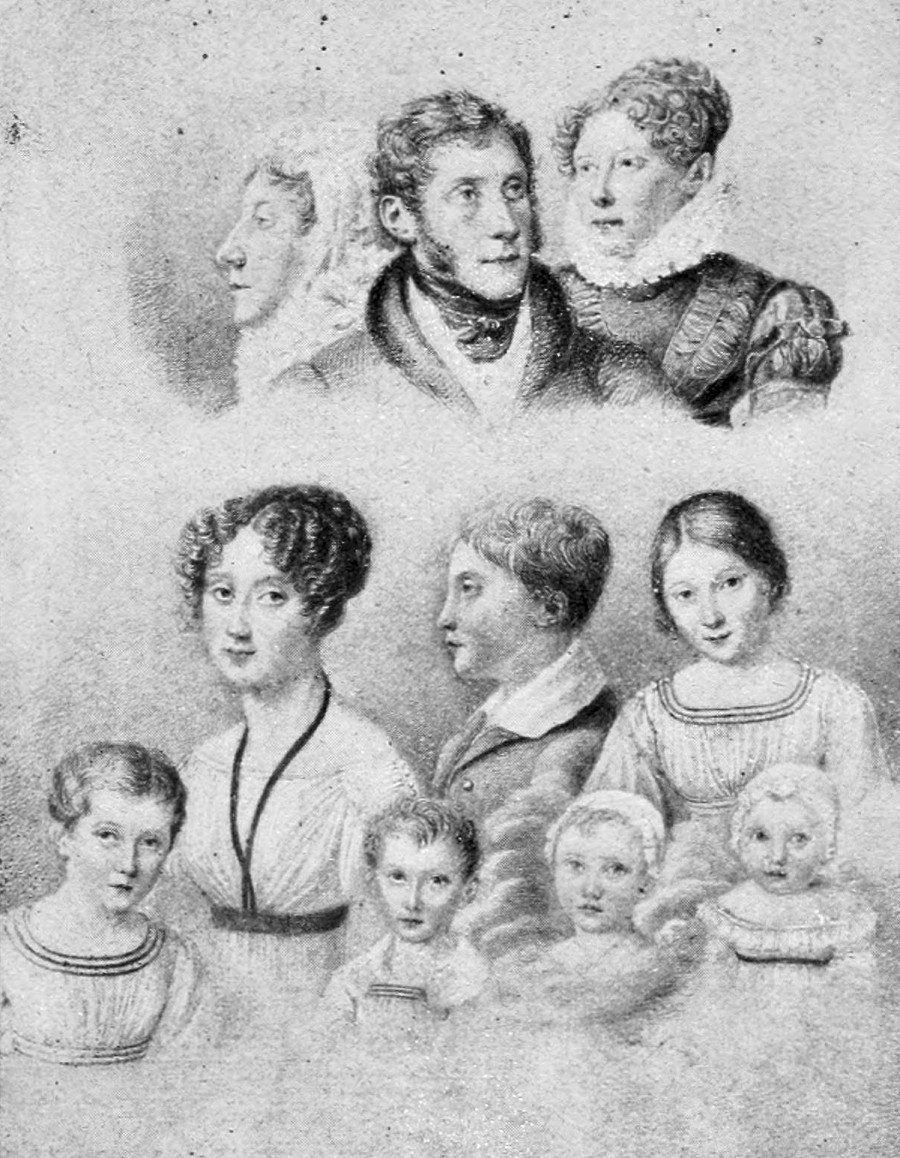 Manzoni's family during journey to Florence, drawing of Mrs. Bisi, in Alessandro Manzoni's correspondence", edited by Giovanni Gallavresi Sforza, part 2, Hoepli, Milan 1912